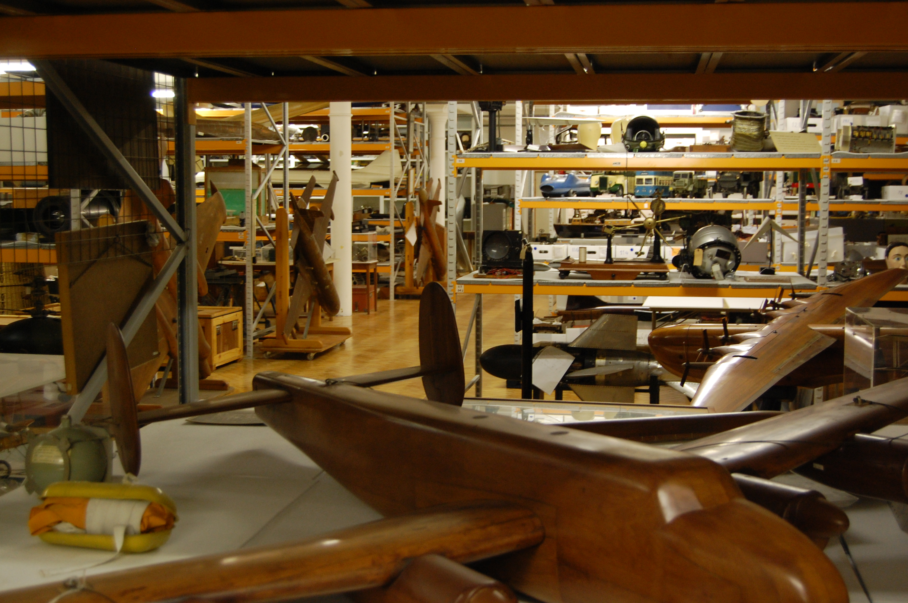 Wooden aircraft windtunnel model in the Science Museum's Blythe House, Science Museum small objects store